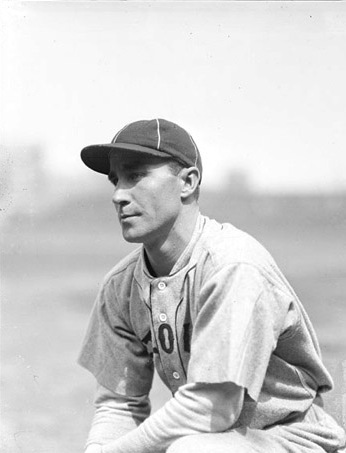 "Informal three-quarter length portrait of baseball player Robertson, of the American League's St. Louis Browns, crouching on the field at Comiskey Park, which was located at 324 West 35th Street and bounded by West 34th Street, South Shield's Avenue (formerly Portland Avenue), and South Wentworth Avenue in the Armour Square community area of Chicago, Illinois."